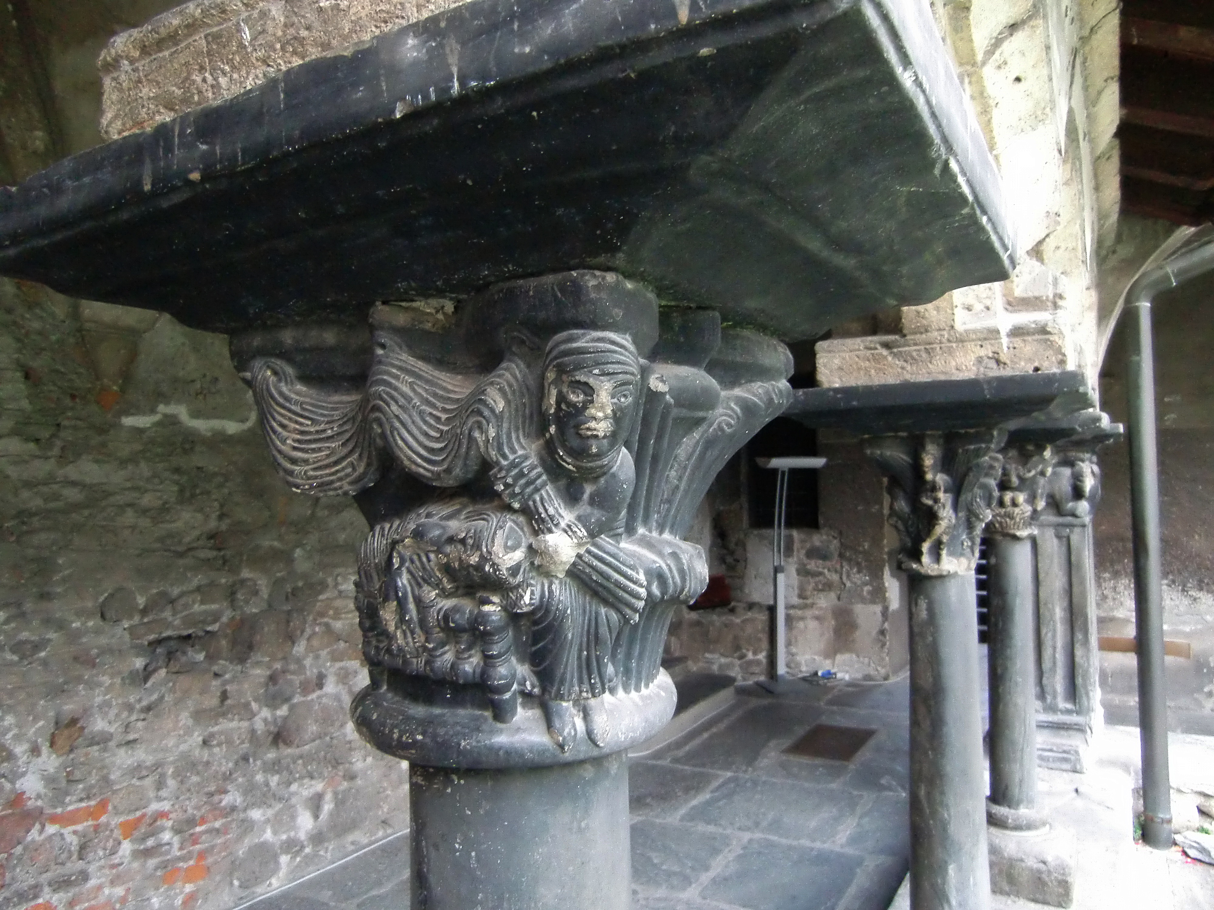 Aosta, cloister of the "Collegiata di Sant'Orso", XII century, romanesque capital The capital represents the scene of the Nativity